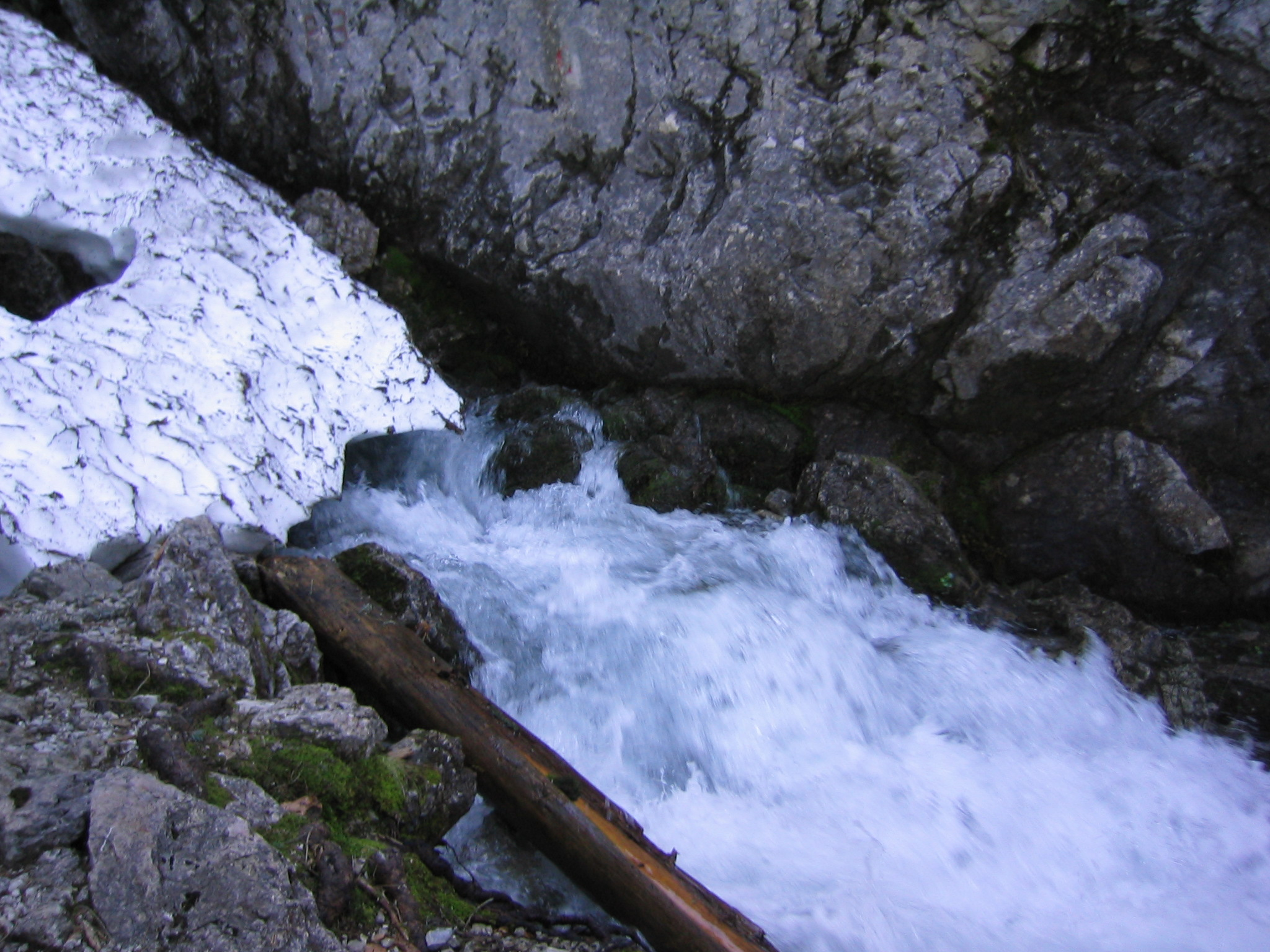 Brevon river (Haute-Savoie, France)